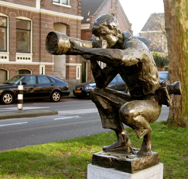 Sculpture: Photographer Sculpter: Kees Verkade Date: 1995 Location: Haarlem, Netherlands